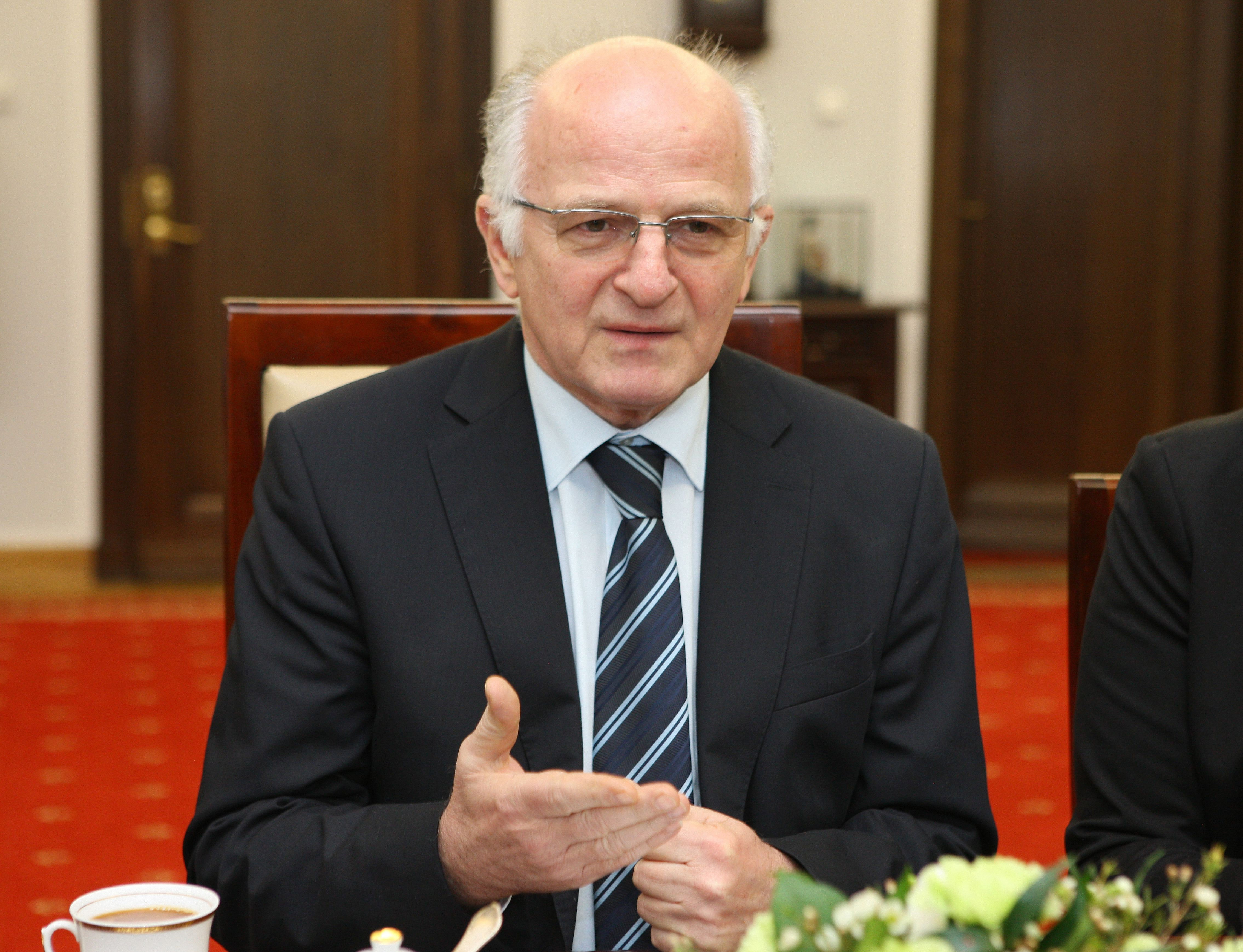 Speaker of the Croatian Parliament Josip Leko